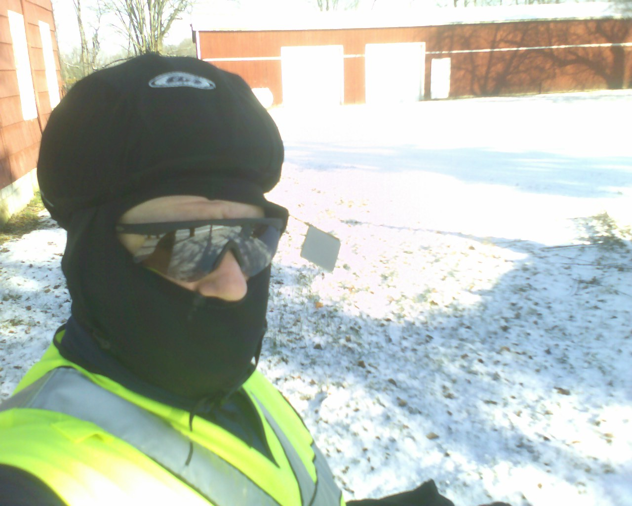 A picture of myself dressed for a winter bicycle ride.